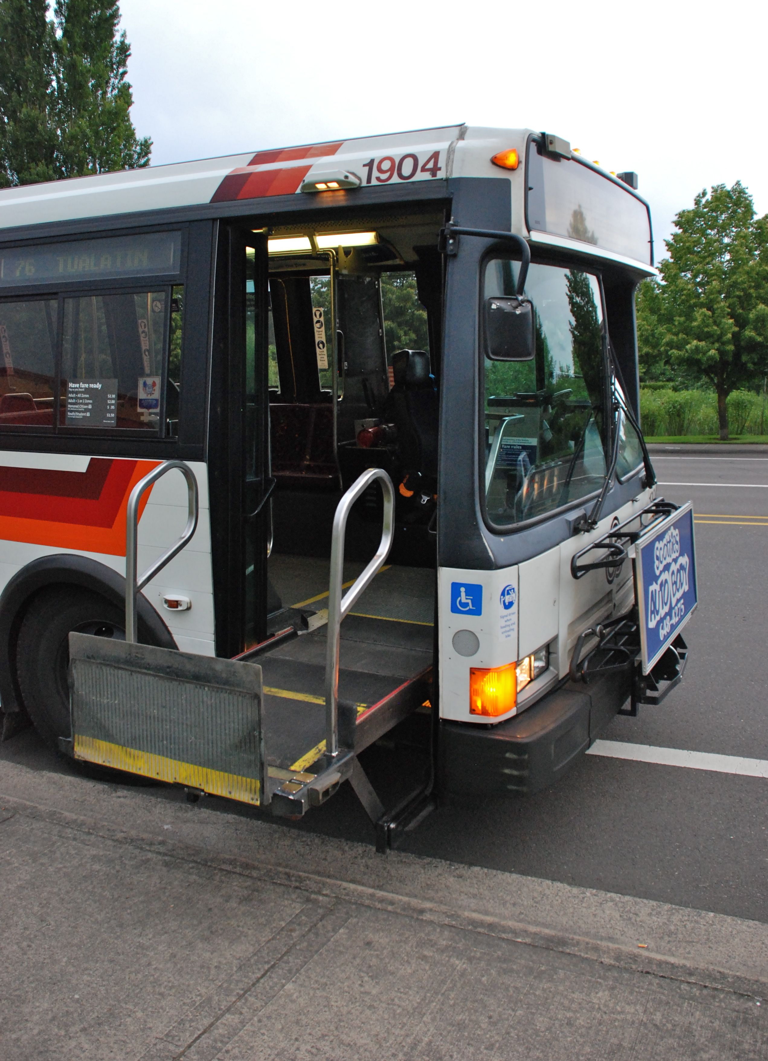 The front-door wheelchair lift of TriMet bus 1904 (a 1992 Flxible Metro) raised to the floor level of the bus.